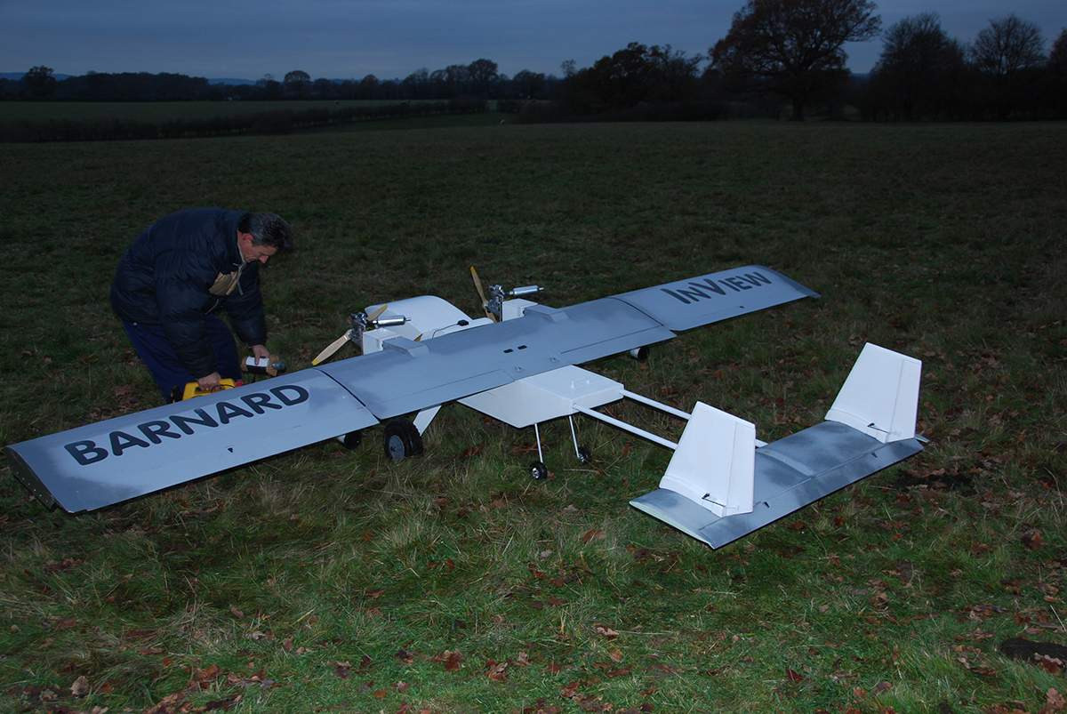 InView being prepared for a night mission.